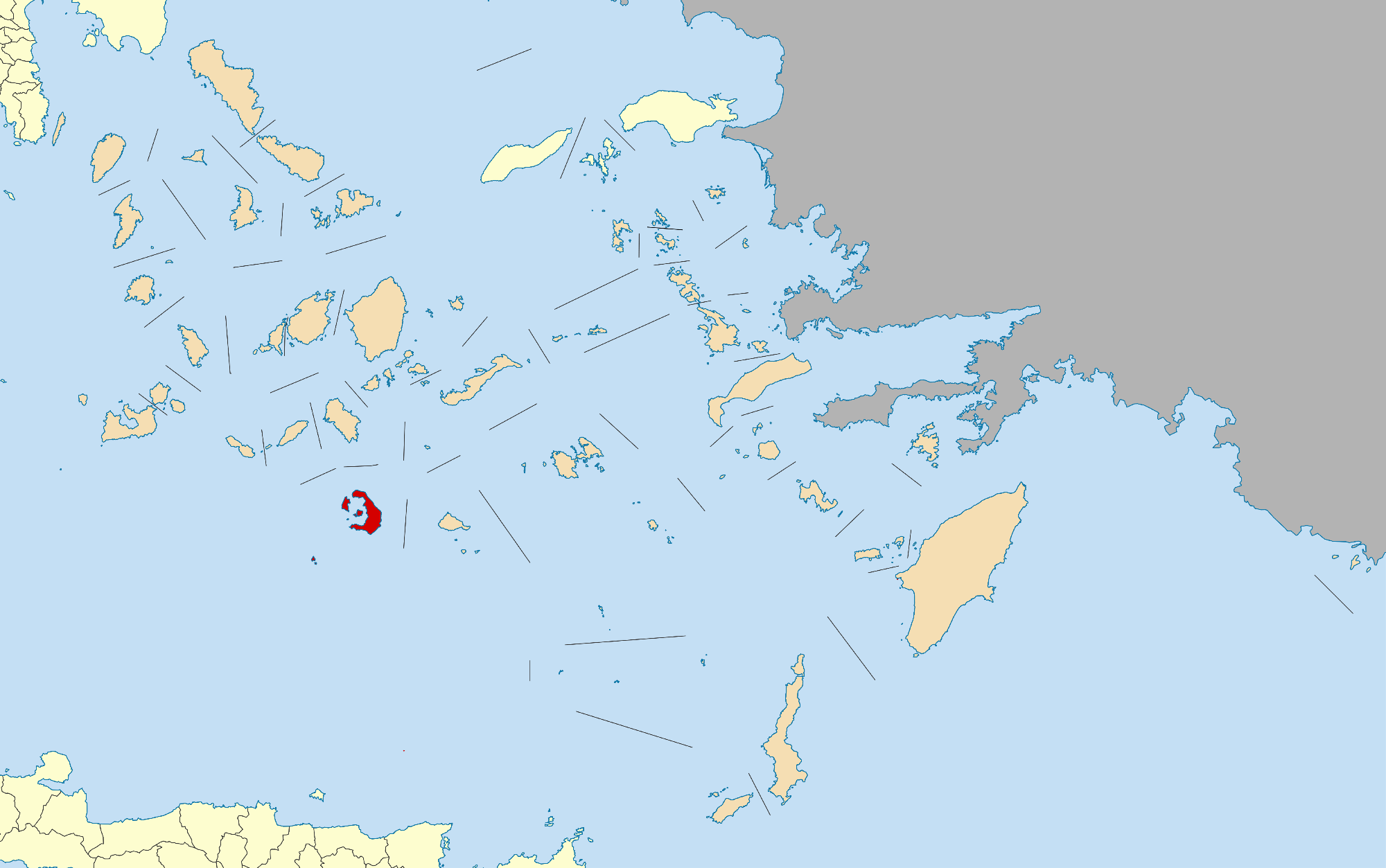 Locator map for Thira municipality (Santorin) in Greek region South Aegean (2011)